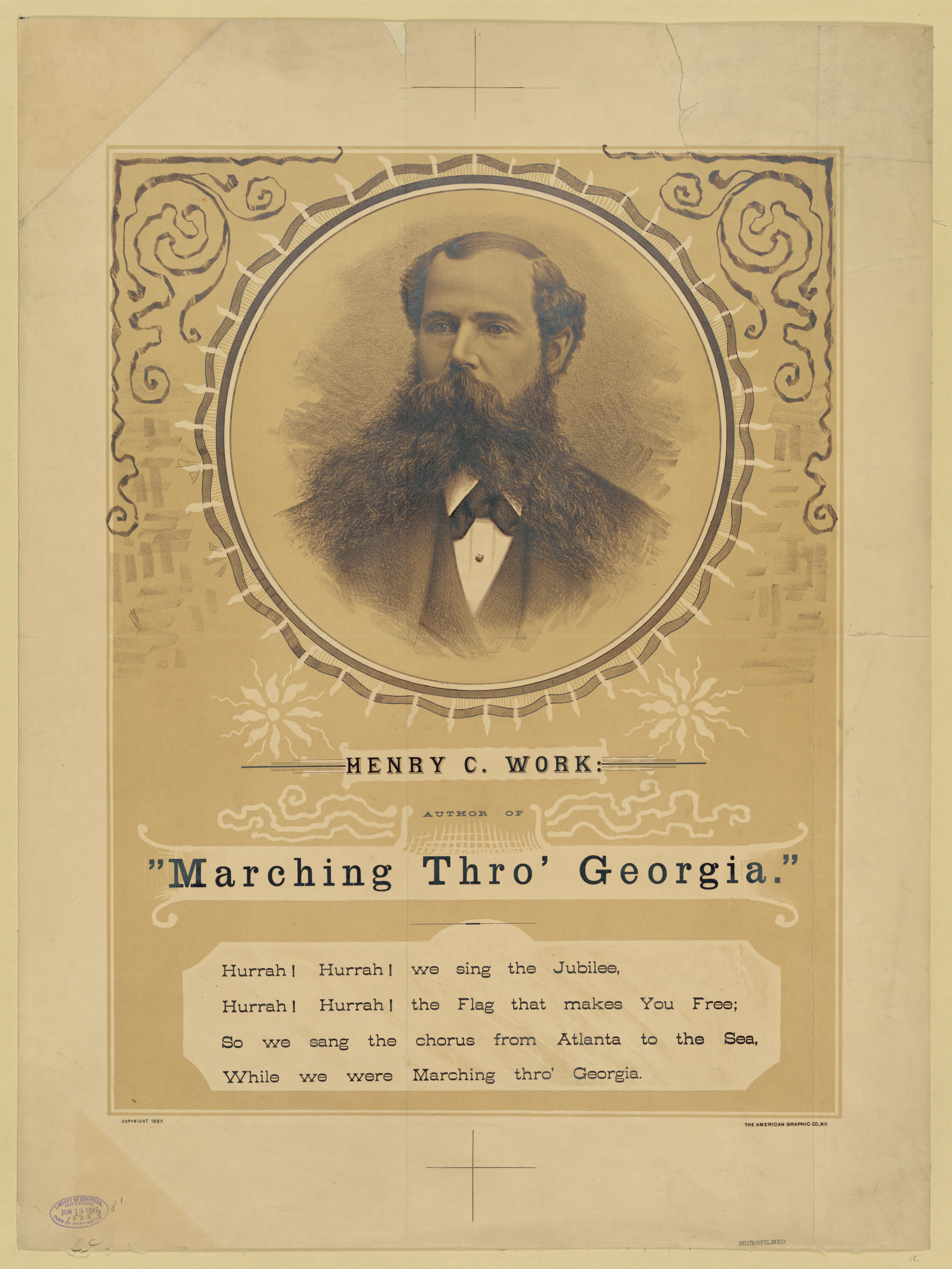 Title: Henry C. Work: author of "Marching Thro' Georgia." Physical description: 1 print. Notes: This record contains unverified data from PGA shelflist card.; Associated name on shelflist card: American Graphic Co.